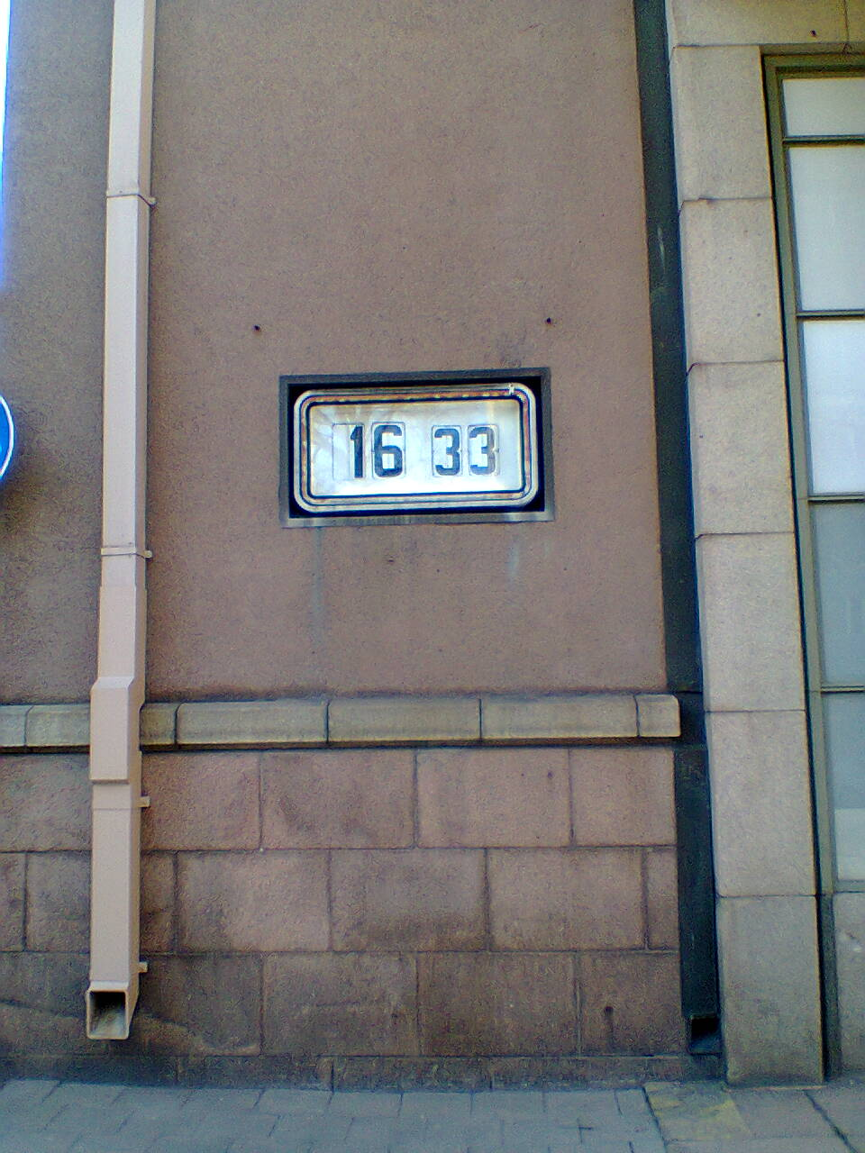 Clock on the southeast wall of Turku's postitalo (post building) (1932). The building is in the corner of Eerikinkatu and Humalistonkatu.